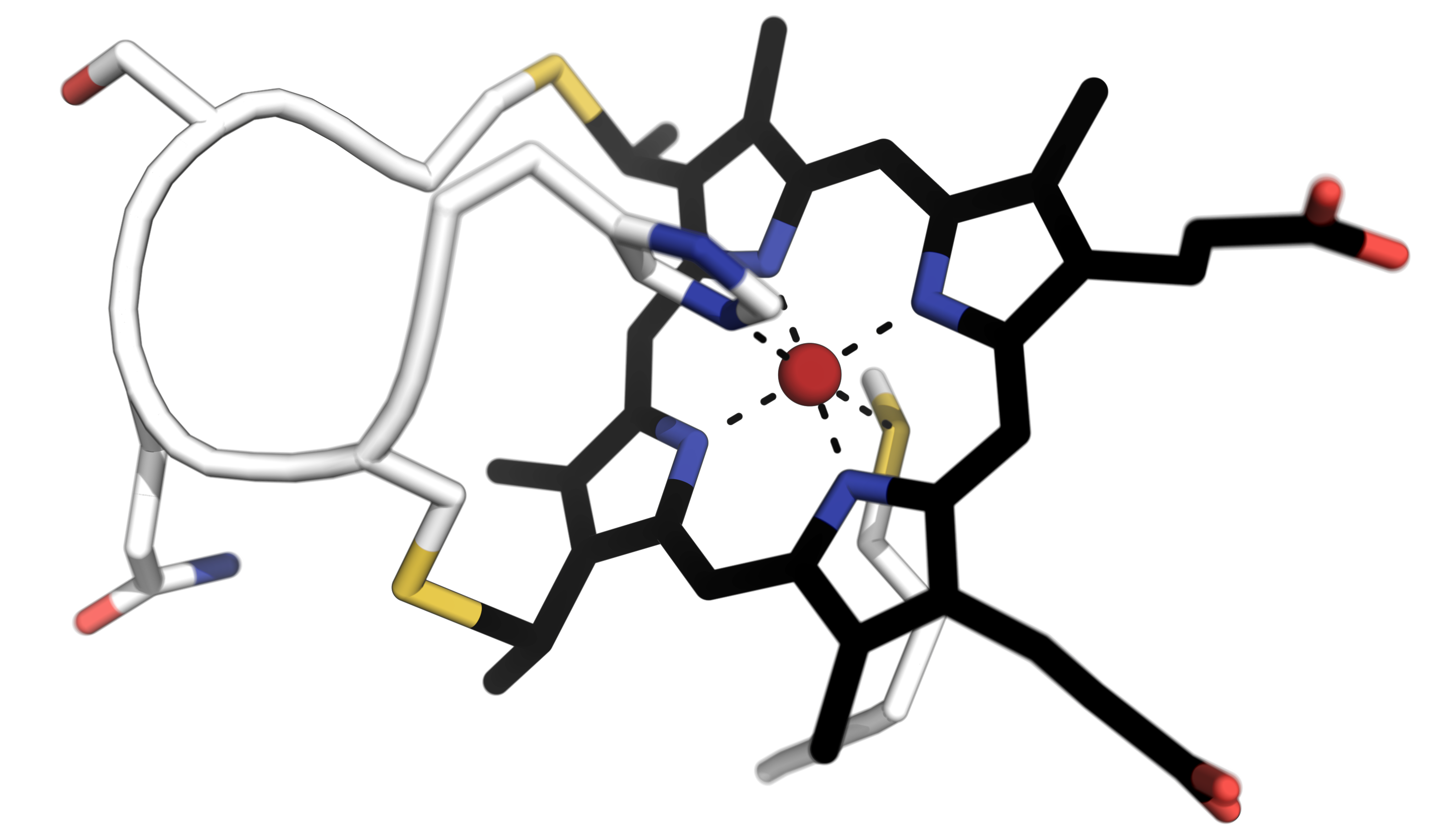 Cysteine-X-X-Cysteine-Histidine (CXXCH) binding motif in cytochrome c proteins. Amino acid side chains are shown in white, the heme in black. The heme iron is coordinated in the heme plane by four nitrogen atoms and axially by a histidine side chain and a methionine side chain of the surrounding protein. Model used for preparation of the image: human recombinant cytochrome c, PDB: 3ZCF​.